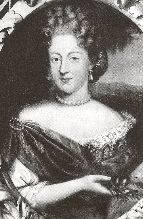 Antoinette Amalia, spouse of Ferdinand Albrecht II. of Brunswick